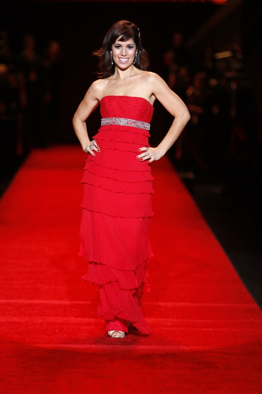 Ana Ortiz modeling at The Heart Truth Fashion Show 2008